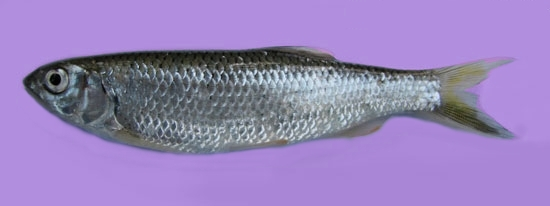 This is basically a native fish of Brahmaputra River and its tributaries. Found widely in Assam and Cooch Behar (in India) and in Northern parts of Bangladesh. Very much tasty and much preferred fish among the people.